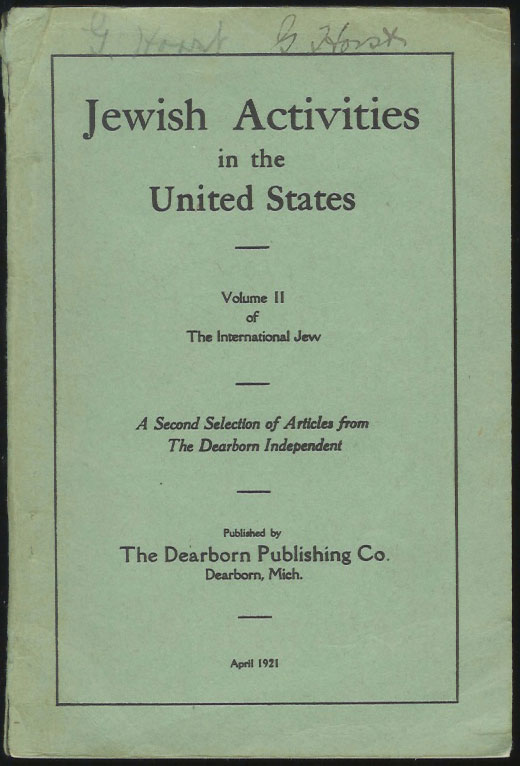 Book cover, The International Jew Volume 2, April 1921